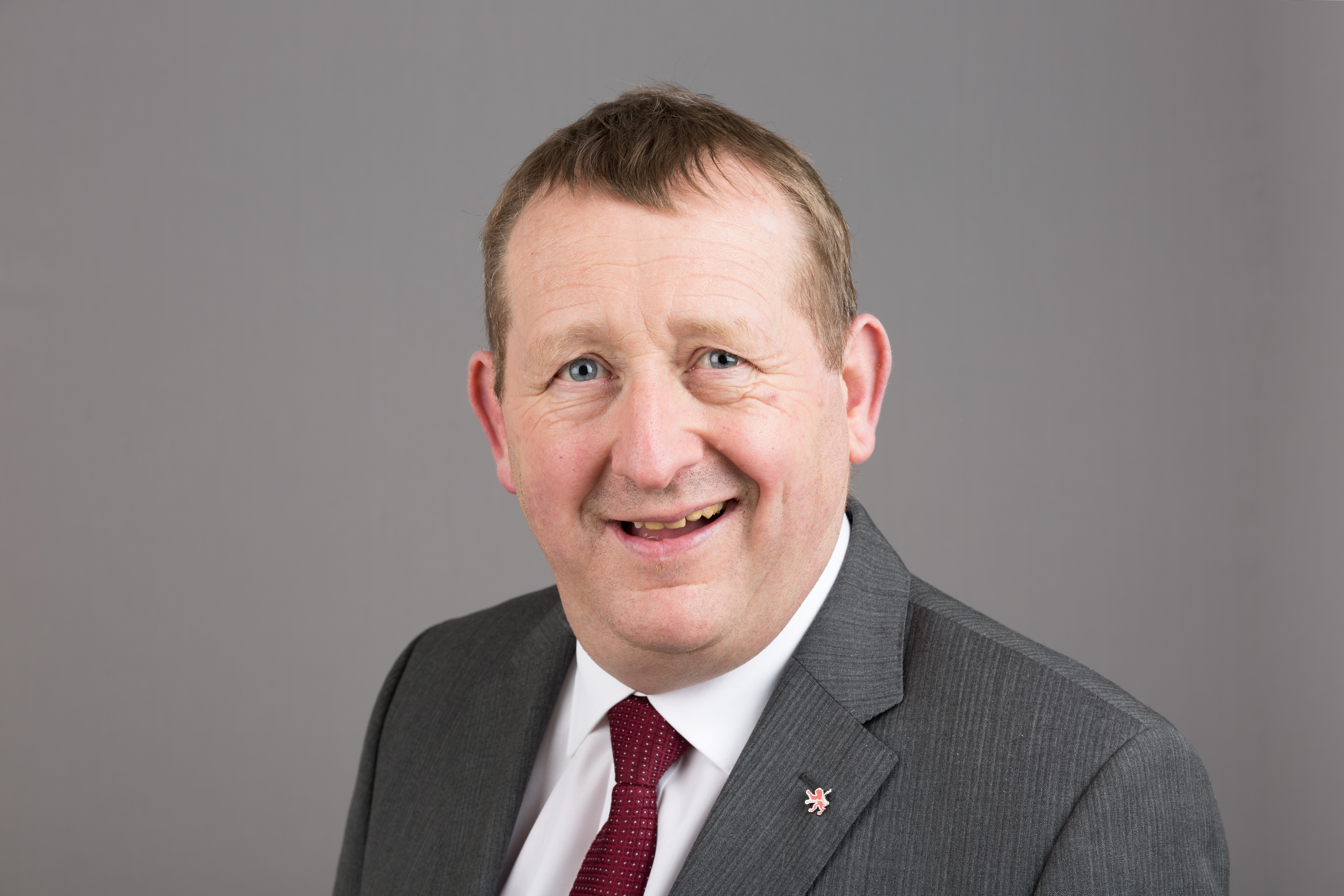 Günter Rudolph, member of the Landtag of Hesse